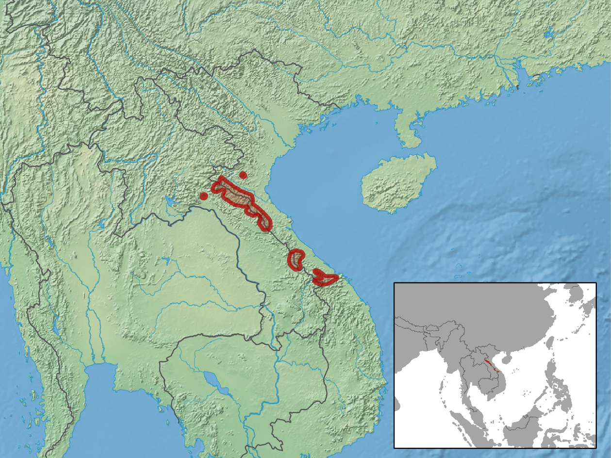 Geographic distribution of Pseudoryx nghetinhensis